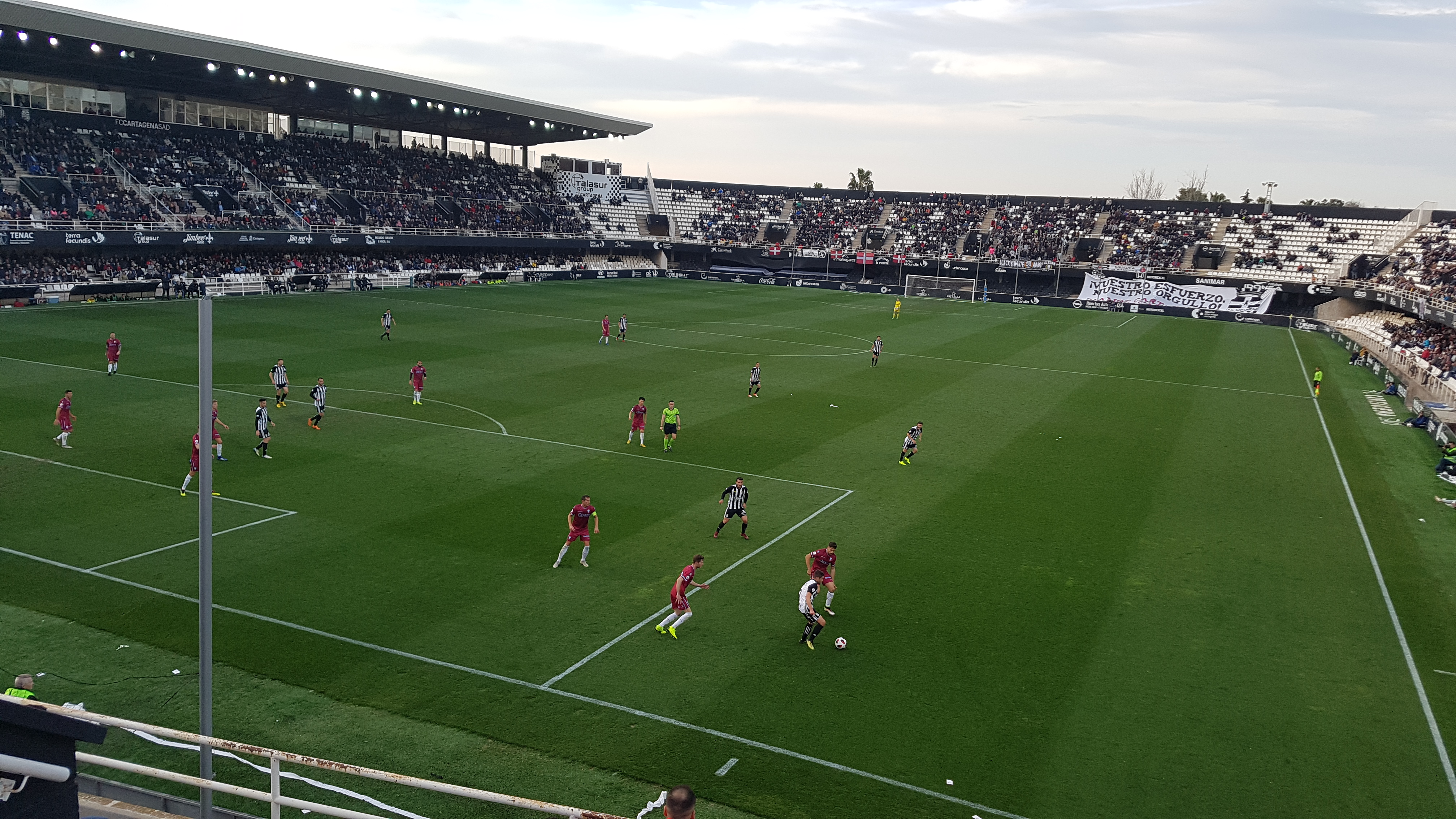 A Segunda División B football match between FC Cartagena and FC Jumilla, at Estadio Cartagonova.